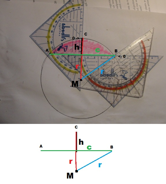 A diagram describing the Pietrow-Vollema Radius method.